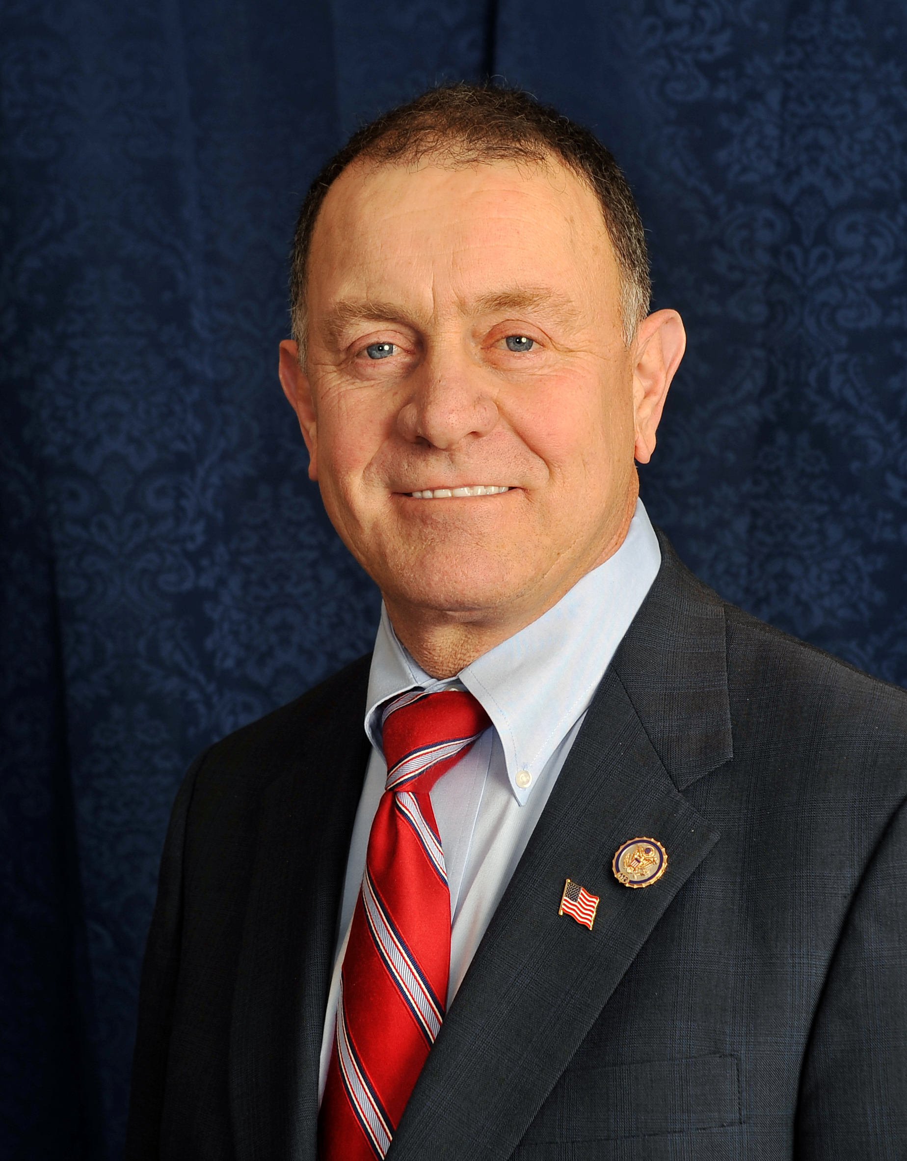 Official portrait of US Rep Richard Hanna